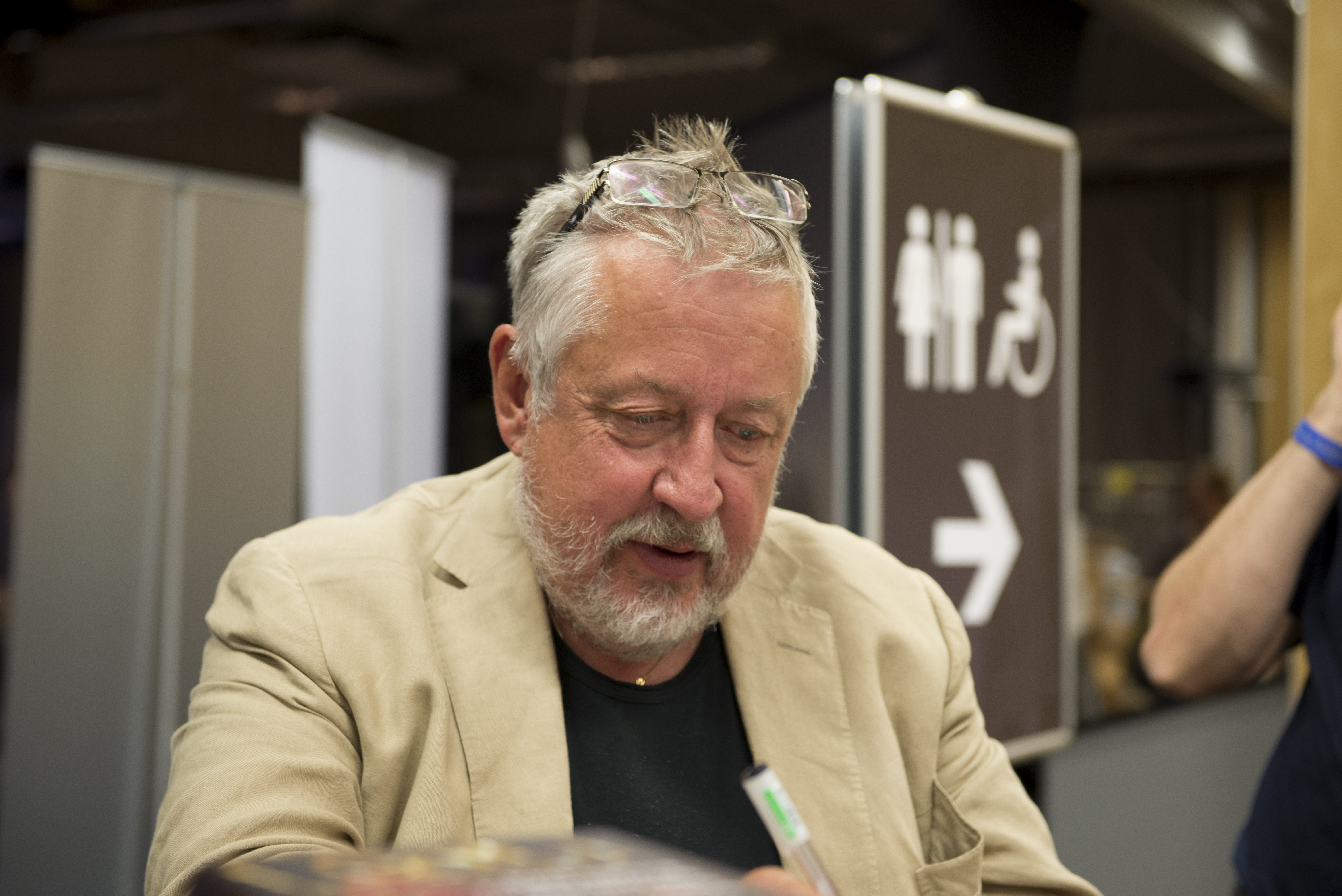 Leif GW Persson at the Göteborg Book Fair 2013.